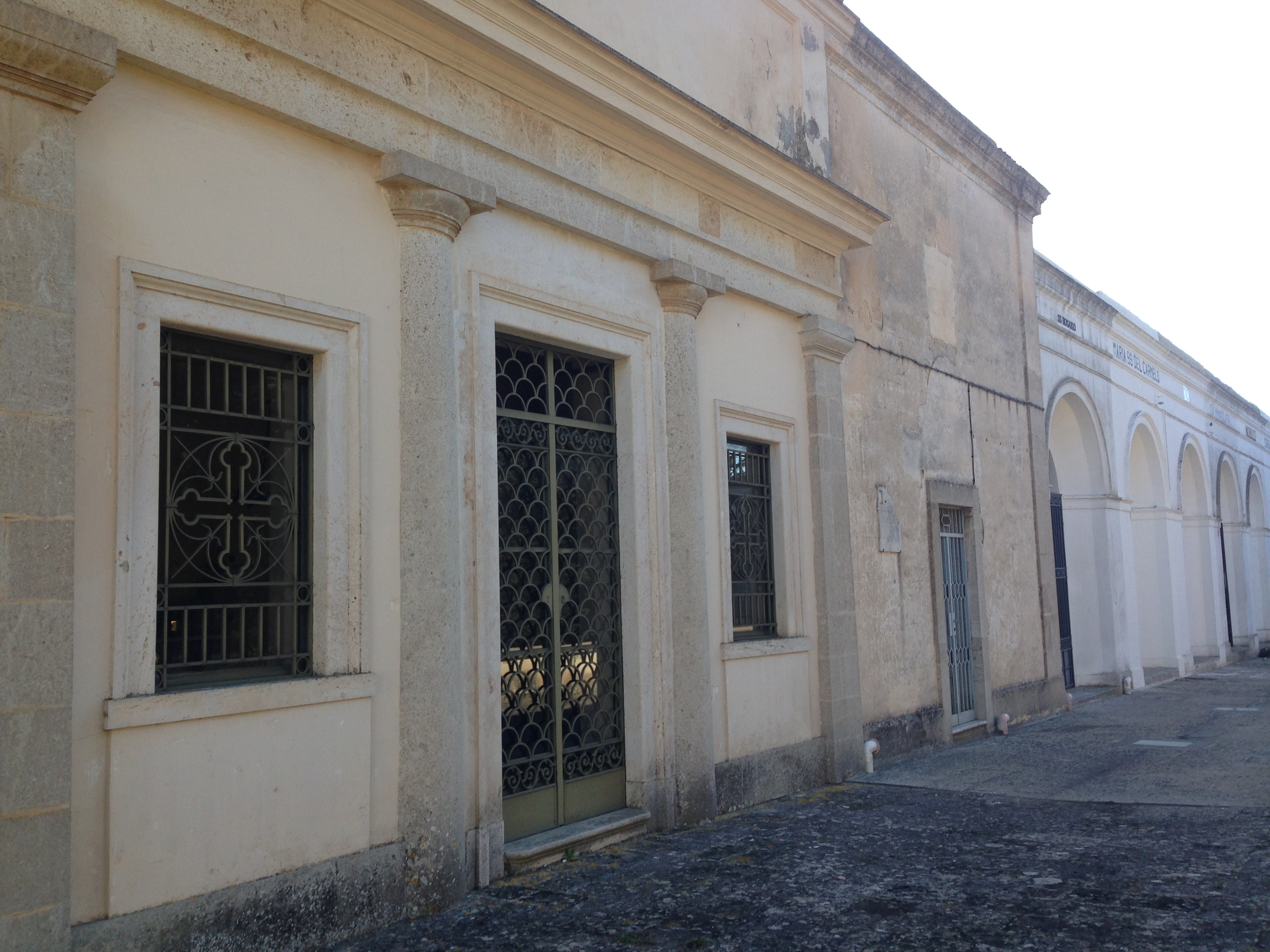 Altamura Old Cemtery - Inside view of the entrance